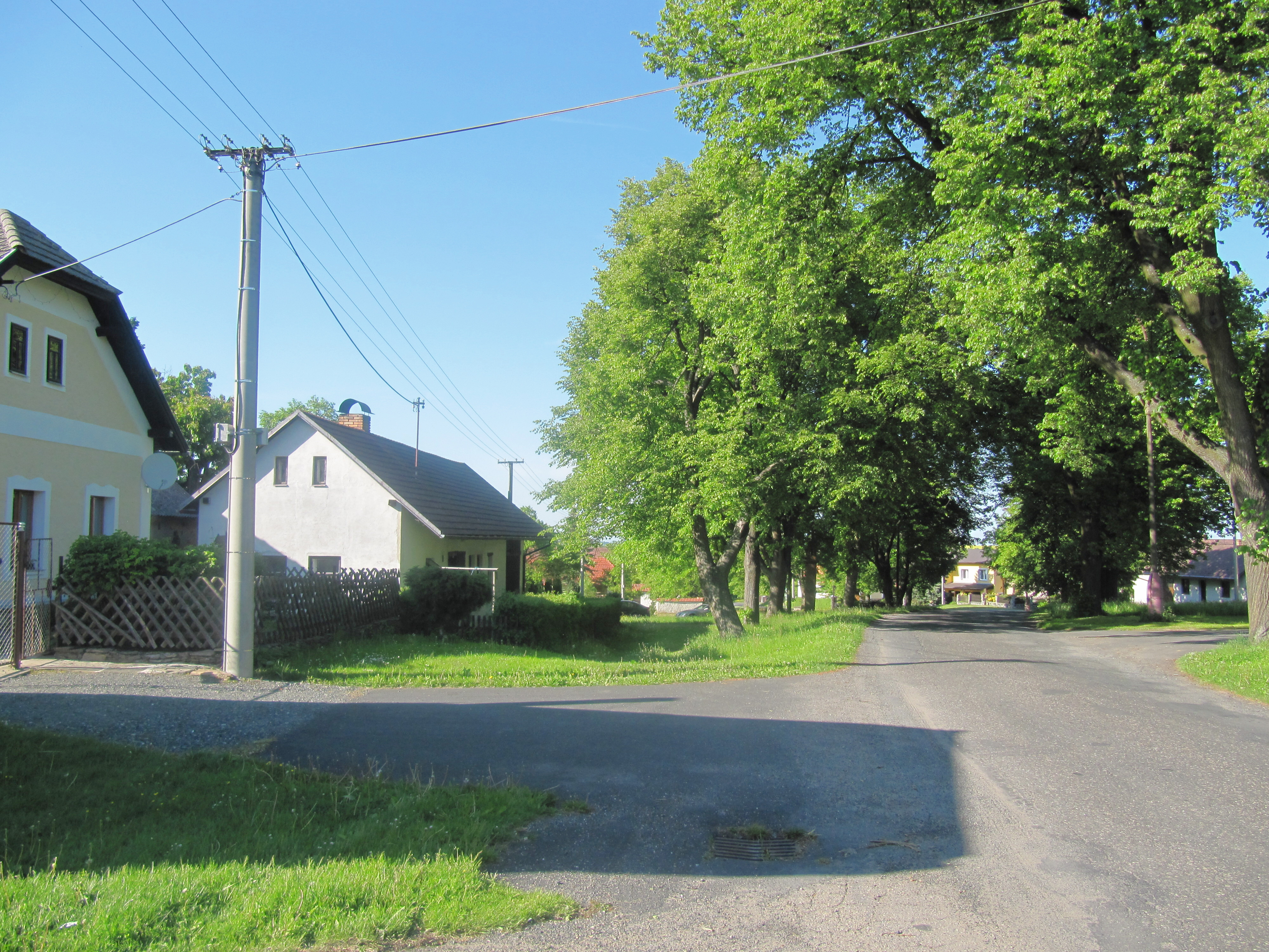 Staňkovice in Kutná Hora District, Czech Republic, part Smilovice. Lime tree alley.